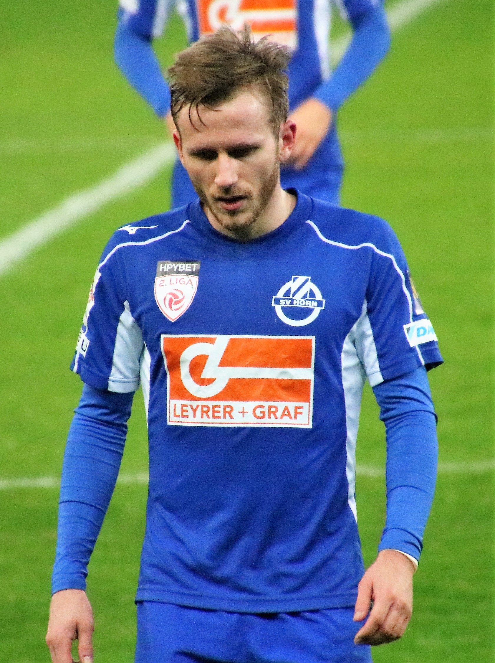 League match, Austria 2nd league